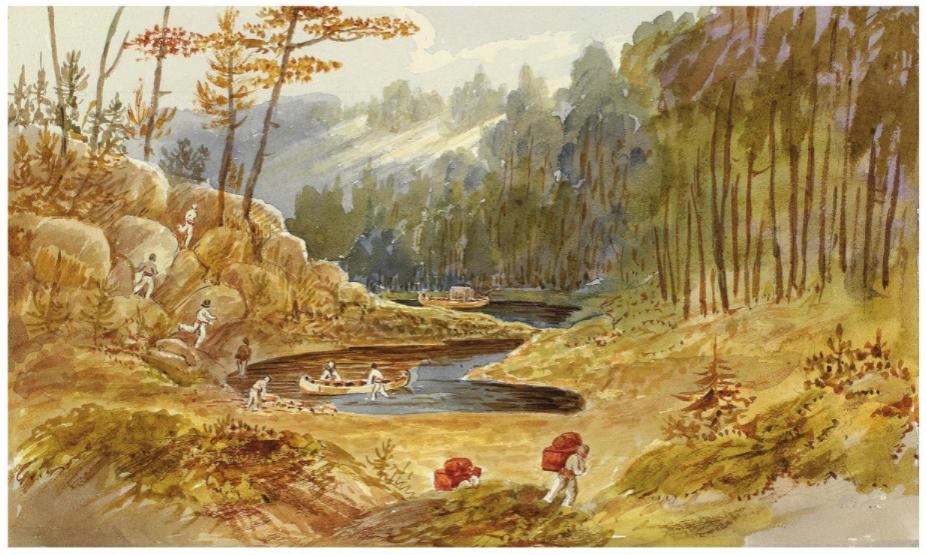 Portage at Lake Nippising, 1821, by John Elliott Woolford. From the National Gallery of Canada # Acc 42324 60a